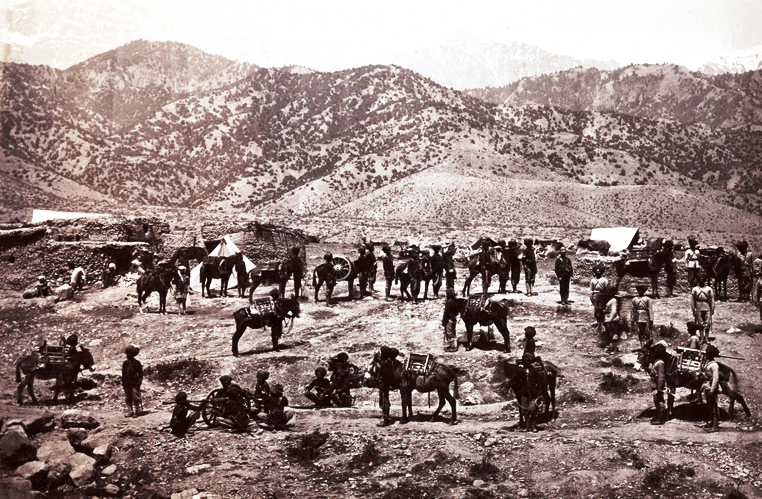 This photograph of a battery of mules is from an album of rare historical photographs depicting people and places associated with the Second Anglo-Afghan War. Mules historically were used by armies to transport supplies in difficult terrain and, occasionally, as mobile firing platforms for smaller cannons. Mules were also used to tow heavier wheeled field guns through treacherous mountain trails in Afghanistan. One of these slightly larger field guns sits in the left foreground of the photograph, surrounded by sepoys (Indian soldiers in the British Army). The Second Anglo-Afghan War began in November 1878 when Great Britain, fearful of what it saw as growing Russian influence in Afghanistan, invaded the country from British India. The first phase of the war ended in May 1879 with the Treaty of Gandamak, which permitted the Afghans to maintain internal sovereignty but forced them to cede control over their foreign policy to the British. Fighting resumed in September 1879, after an anti-British uprising in Kabul, and finally concluded in September 1880 with the decisive Battle of Kandahar. The album includes portraits of British and Afghan leaders and military personnel, portraits of ordinary Afghan people, and depictions of British military camps and activities, structures, landscapes, and cities and towns. The sites shown are all located within the borders of present-day Afghanistan or Pakistan (a part of British India at the time). About a third of the photographs were taken by John Burke (circa 1843–1900), another third by Sir Benjamin Simpson (1831–1923), and the remainder by several other photographers. Some of the photographs are unattributed. The album possibly was compiled by a member of the British Indian government, but this has not been confirmed. How it came to the Library of Congress is not known. Afghan Wars; Great Britain. Army; Mules; Soldiers